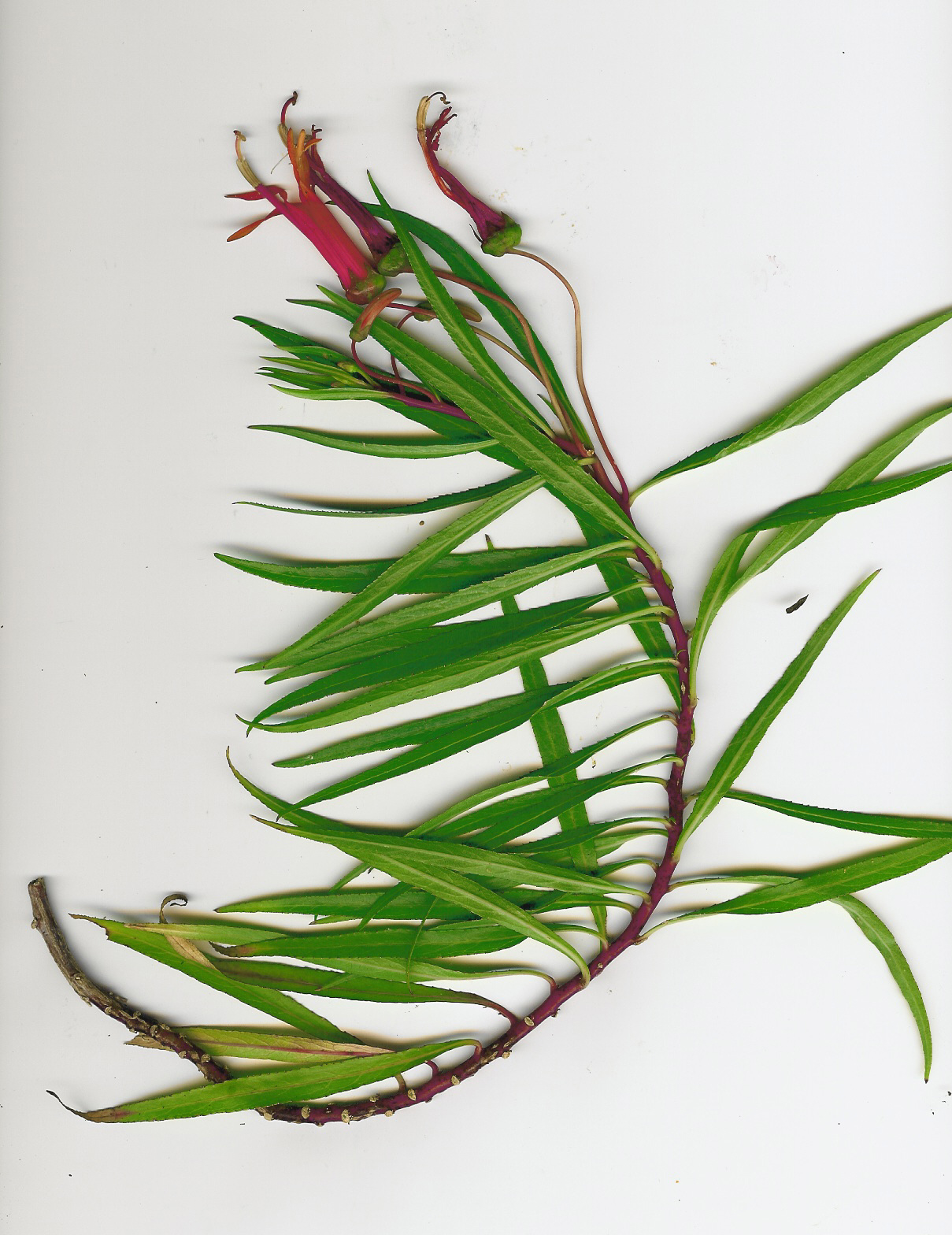 Lobelia laxifolia (leaves and flowers). Location: Maui, Enchanting Floral Gardens of Kula